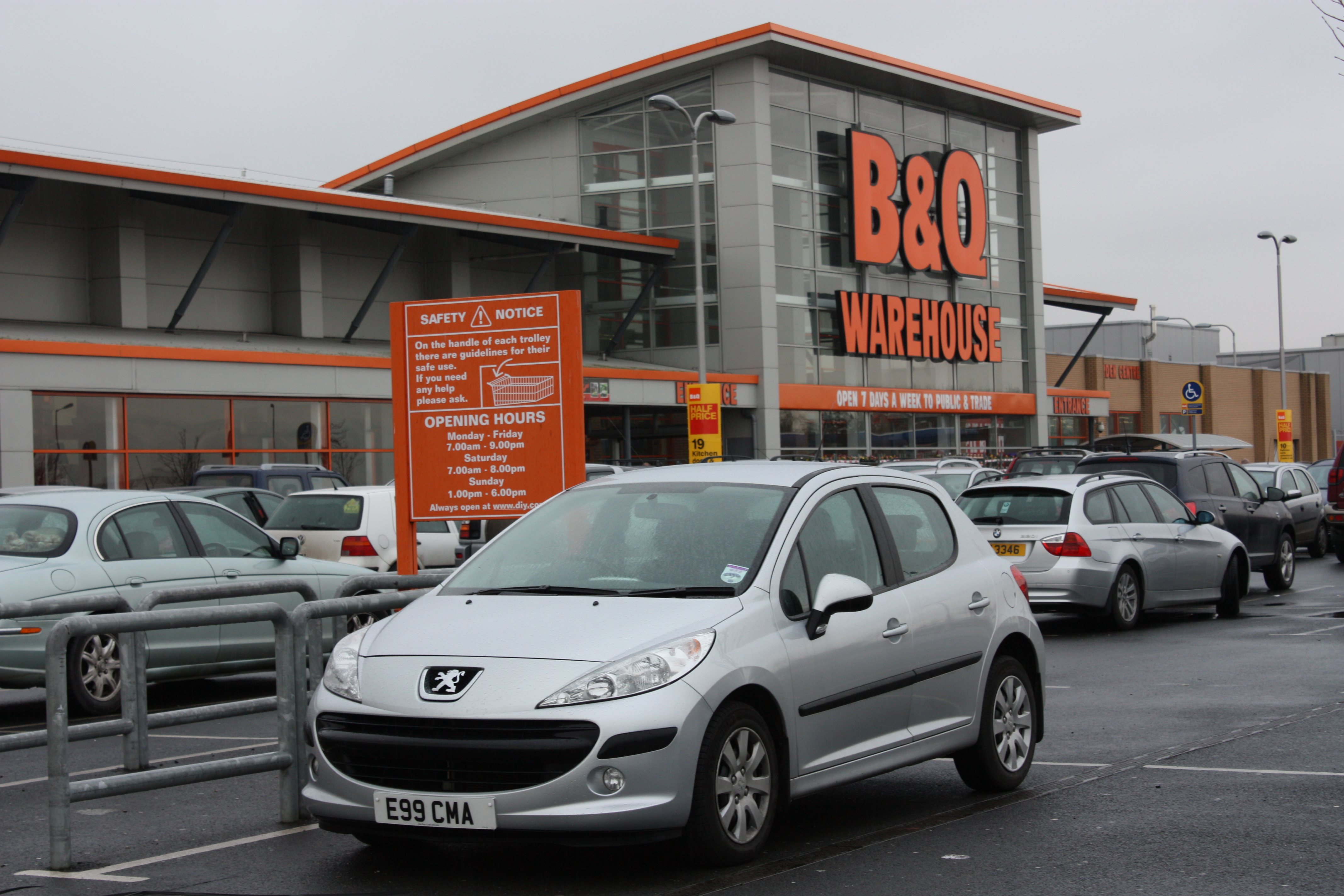 B&Q Warehouse, Holywood Exchange, Airport Road West, Belfast, Northern Ireland, February 2010